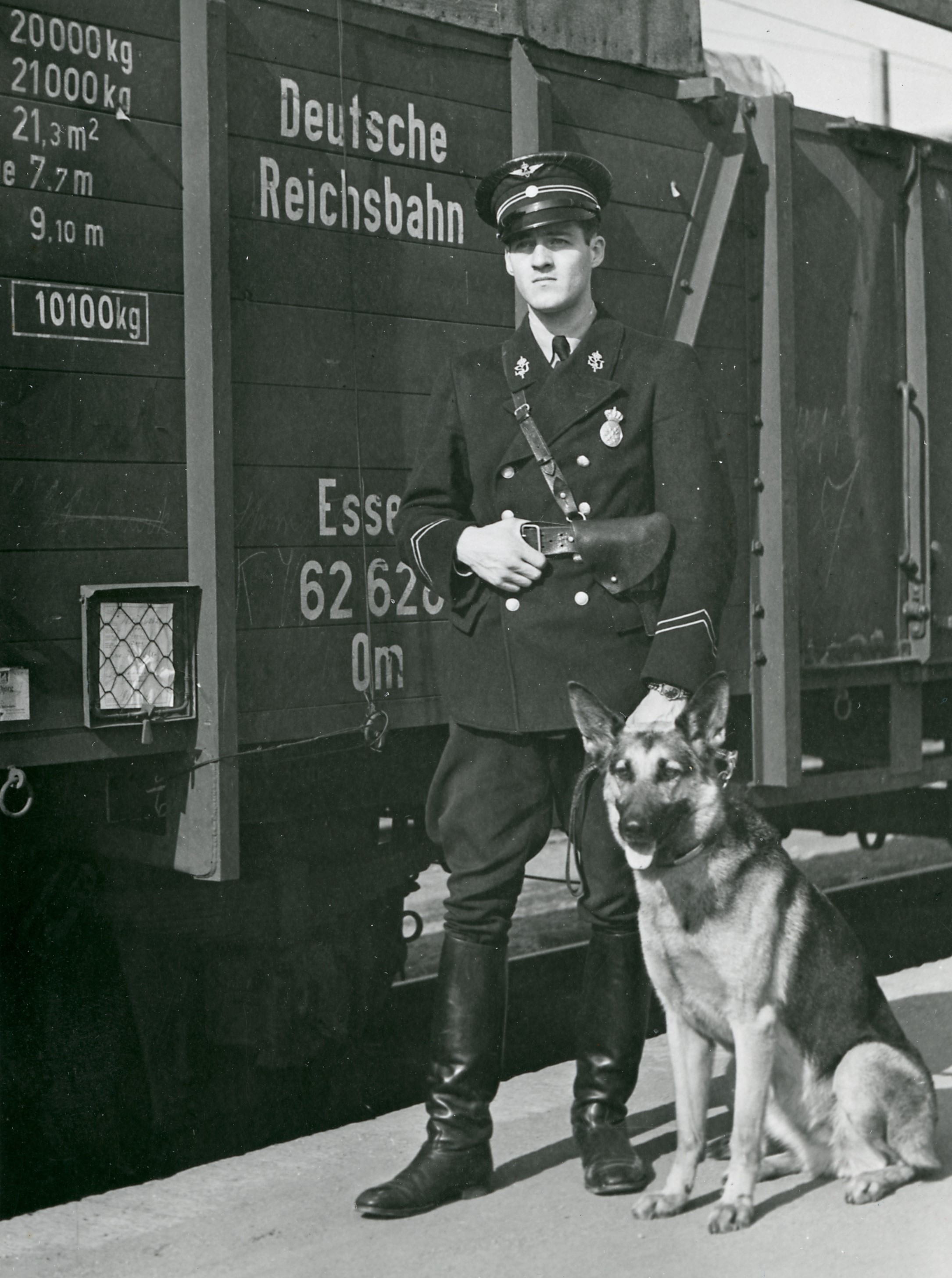 An officer of the Swedish railway police in front of a German military train at Östersund Central Station.